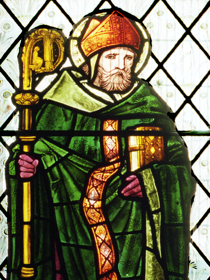 Bishop Robert Grosseteste, detail of a window on the South transept Westernmost. St Paul's Parish Church, Morton, Near Gainsborough.